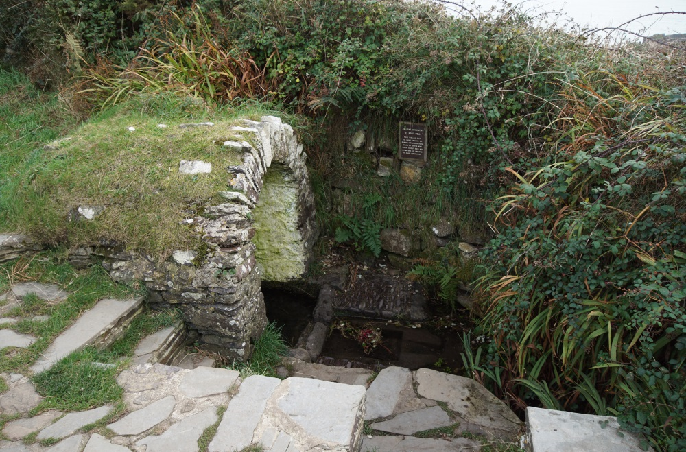 St Non's Well, St Davids, Wales.